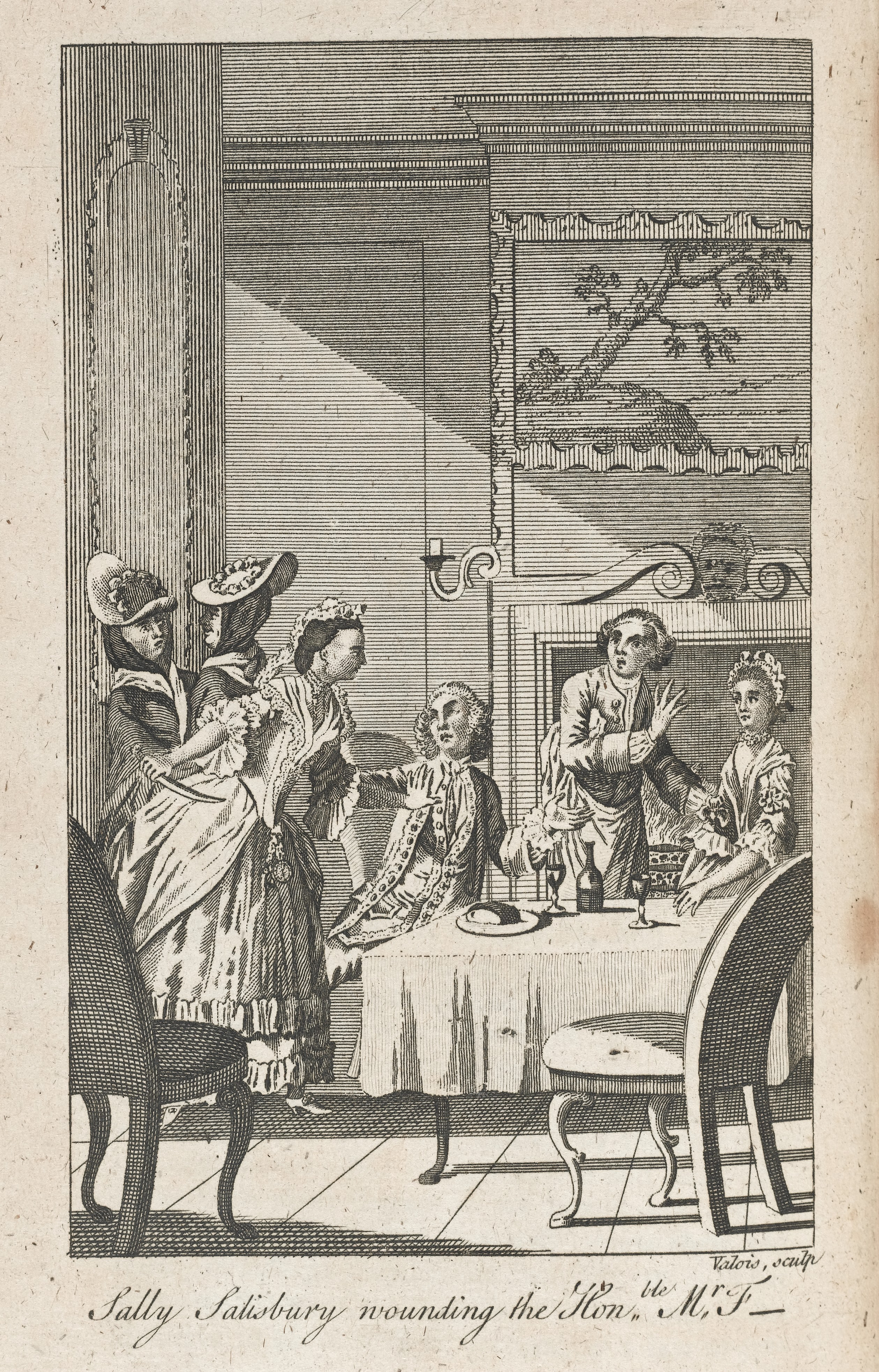 Sally Salisbury wounding the Honourable Mr F---- Rare Books Keywords: Criminals; Homicide; Criminal; Murder